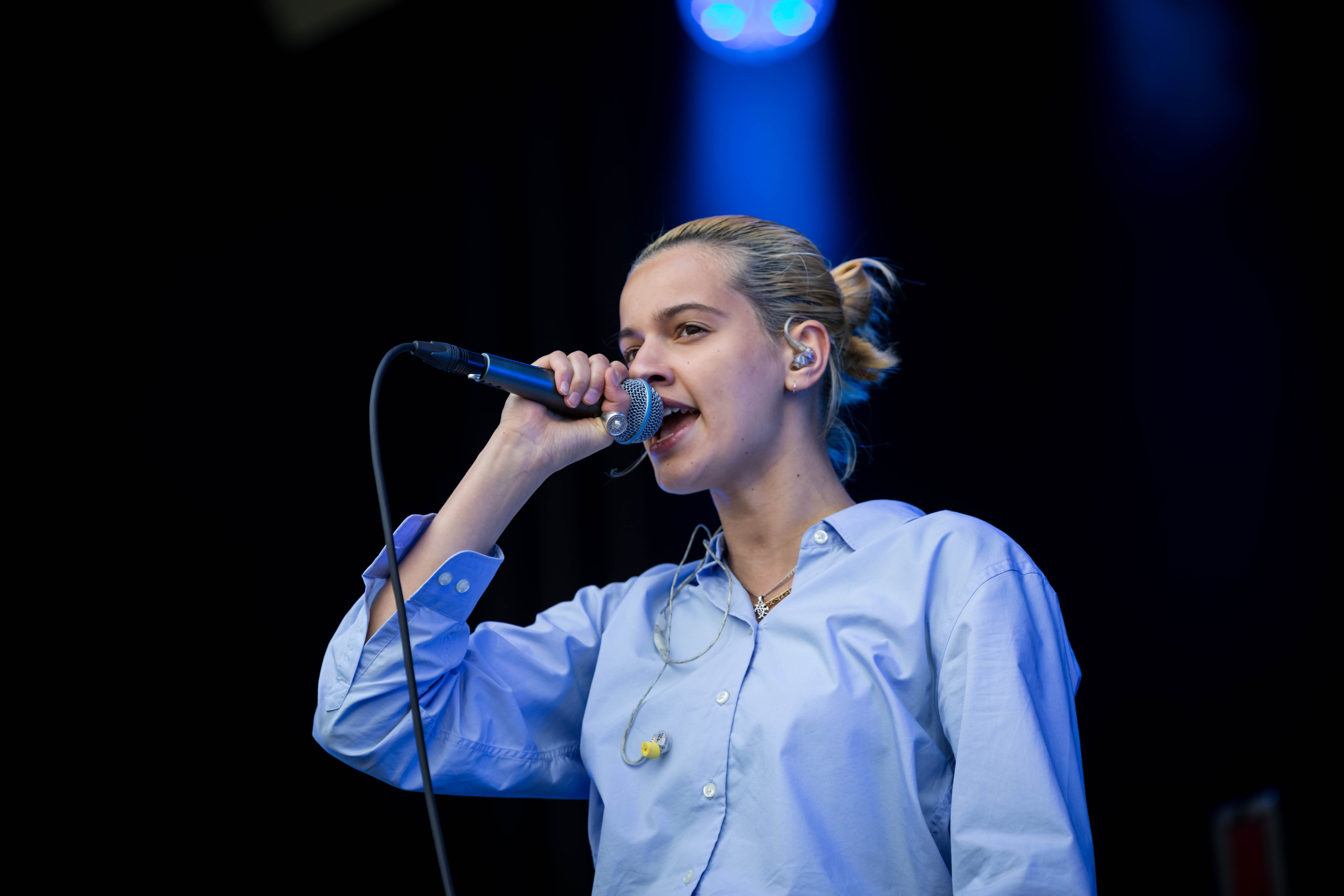 Mavi Phoenix - Rock am Ring 2018